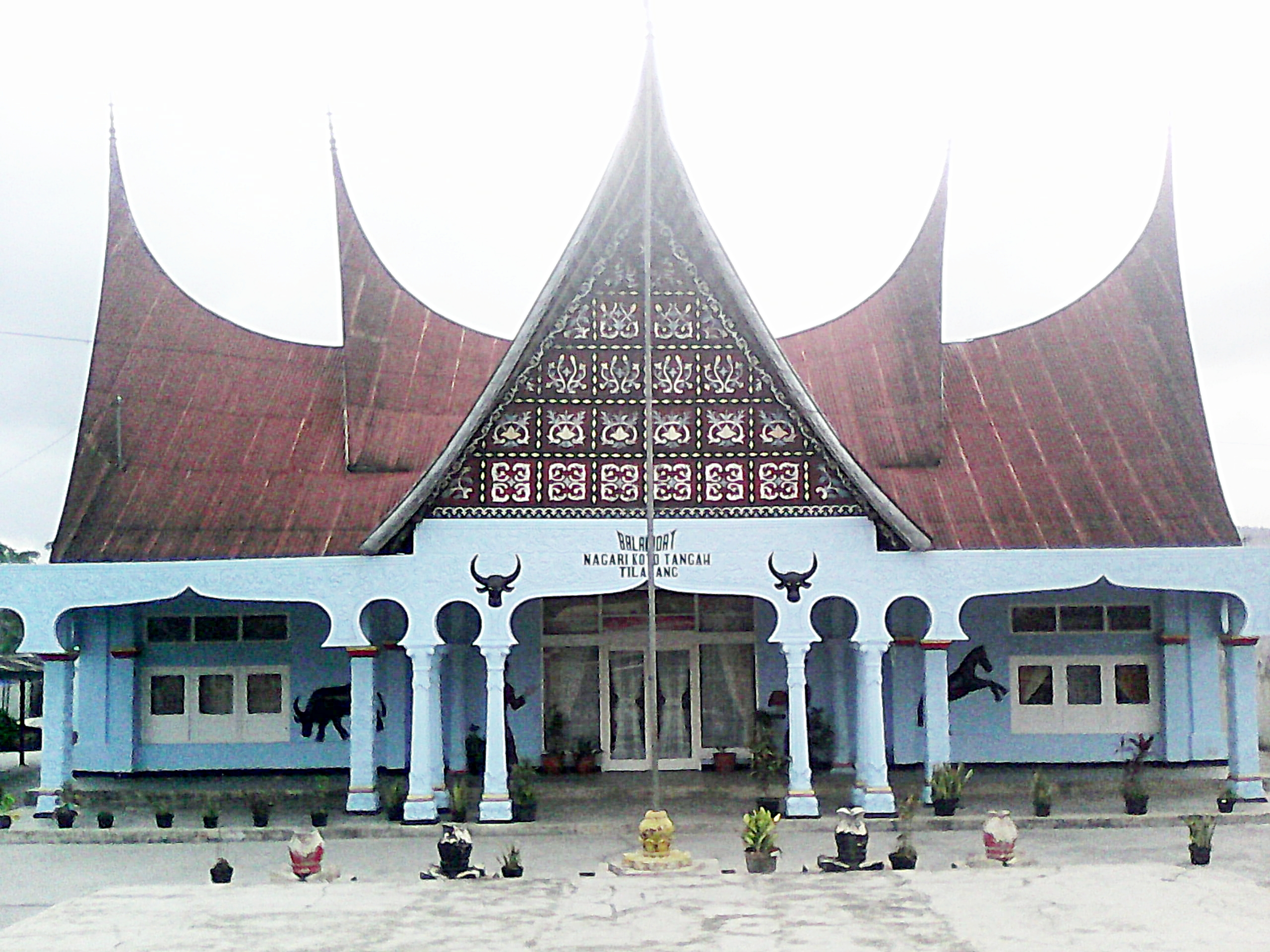 Office of Koto Tangah village, Tilatang Kamang district, Agam Regency.